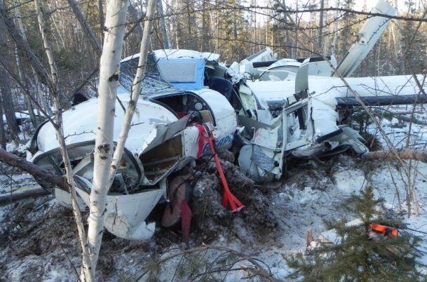 Wreckage of L410UVP-E20 RA-67047